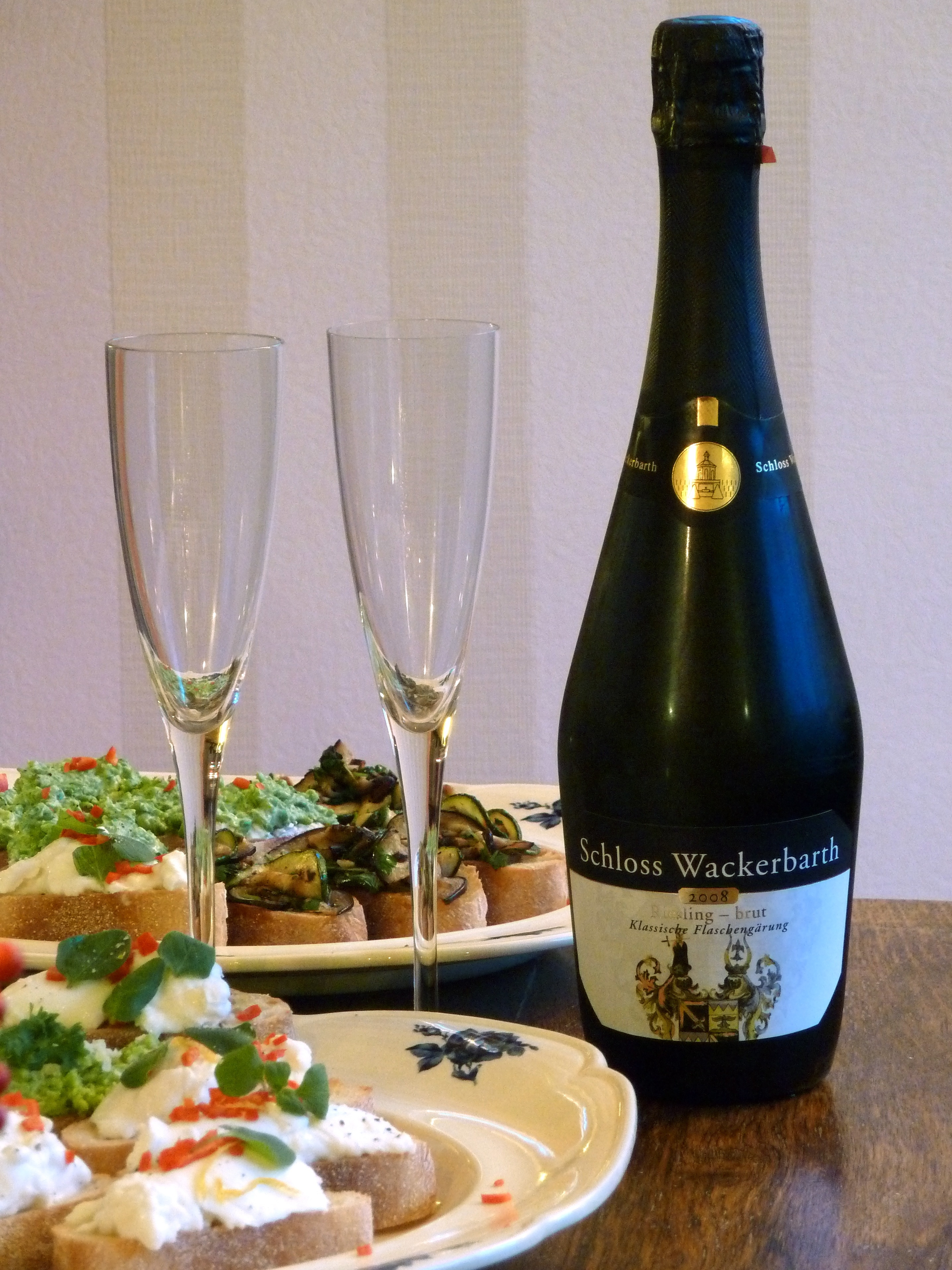 Schloss Wackerbarth Riesling 2008 Sekt in typical bottle Sachsenkeule